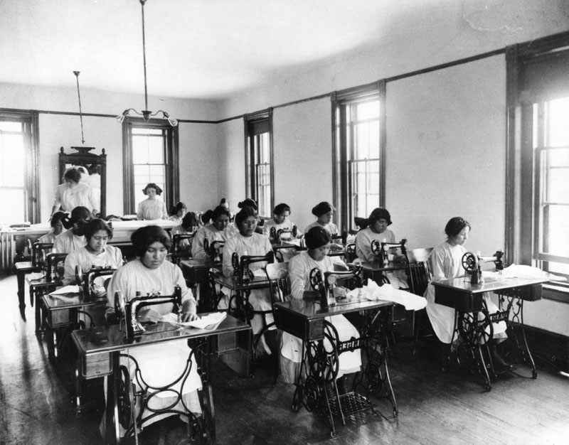 American Indian girls in Intermediate Sewing class at Sherman Institute.